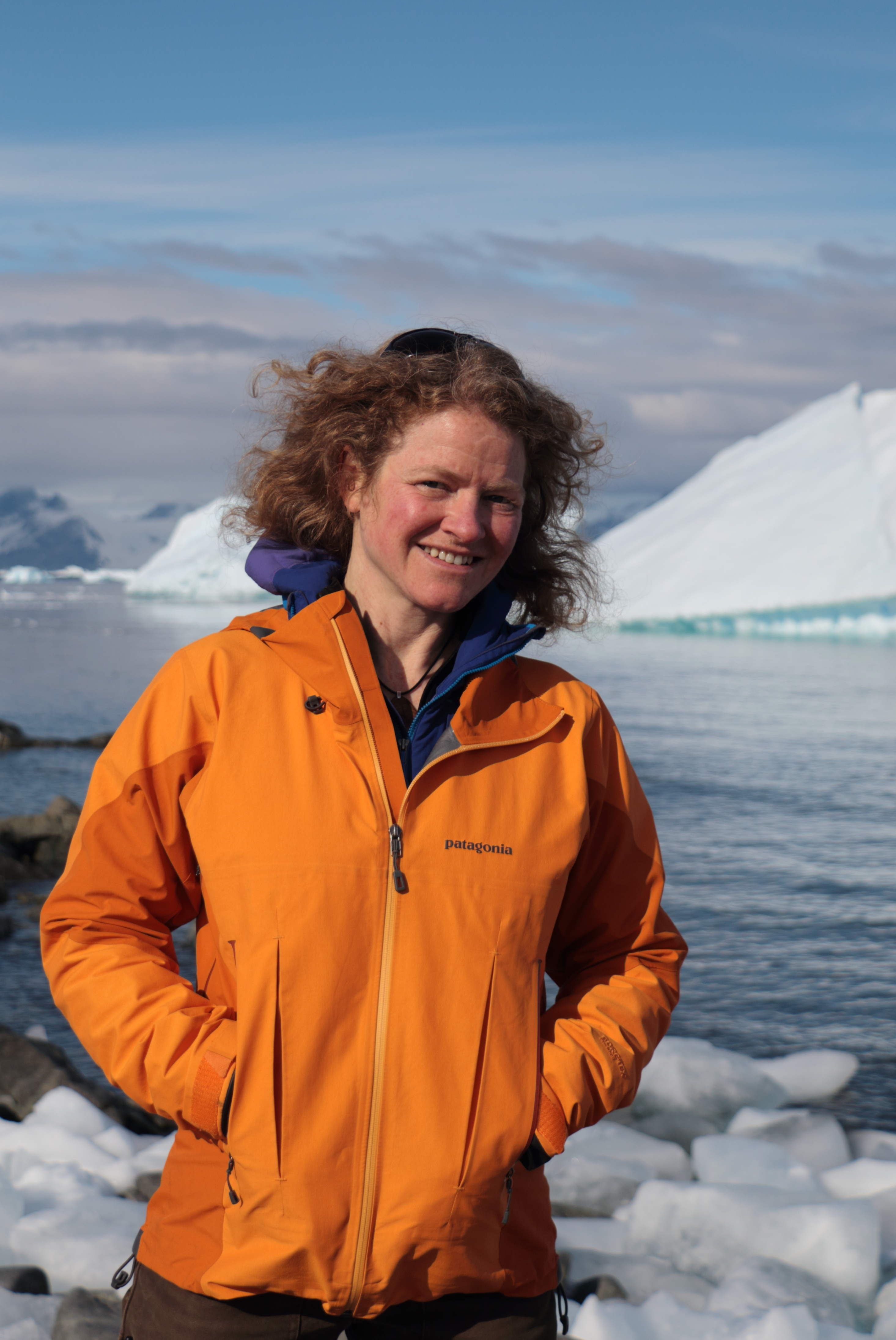 Pettit at Rothera Station Antarctica 2016